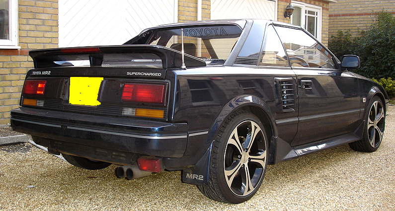 Toyota MR2 MK1 Back, left hand drive, Japanese